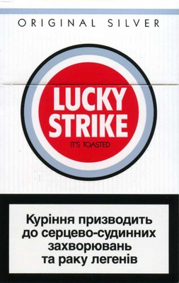 Warning on Lucky Strike pack from Ukraine